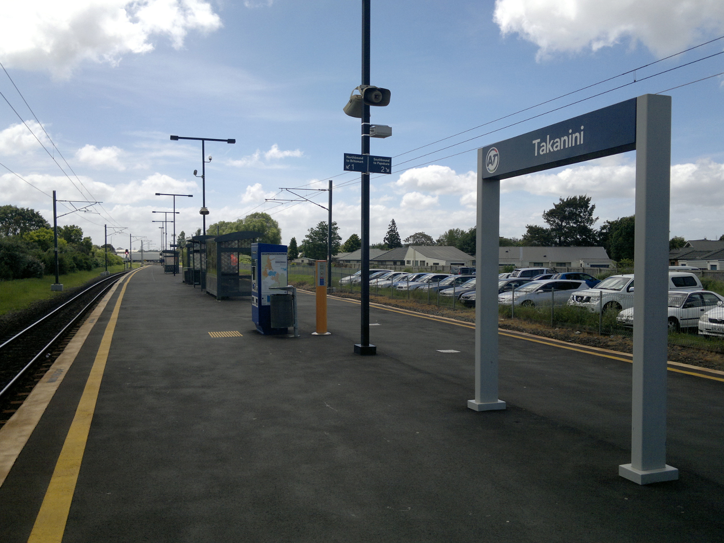 Looking northward at Takanini Station's platform.